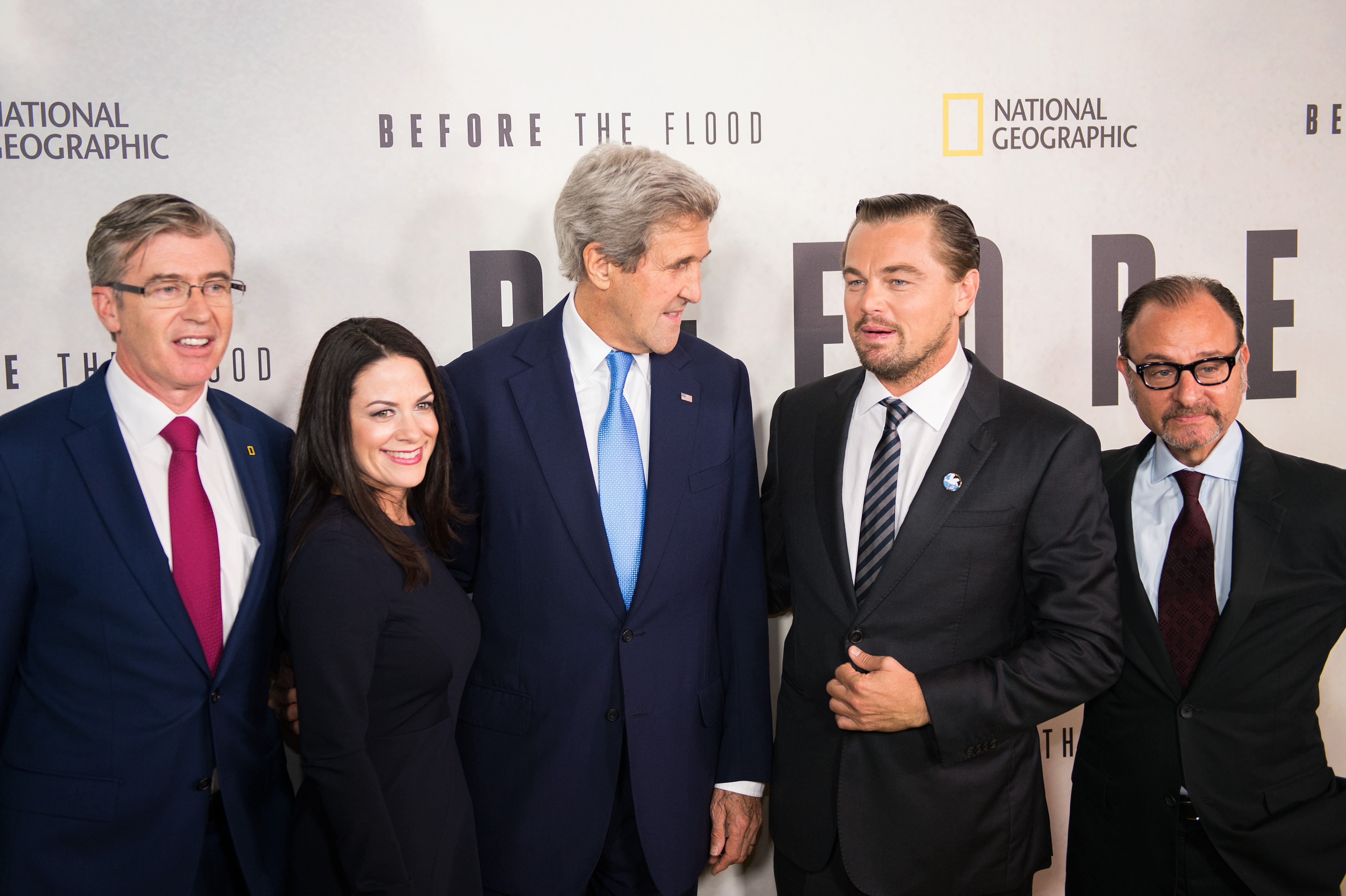 U.S. Secretary of State John Kerry chats with Leonardo DiCaprio at the screening of "Before the Flood” at the UN Headquarters in New York City on October 20, 2016. [State Department photo/ Public Domain]